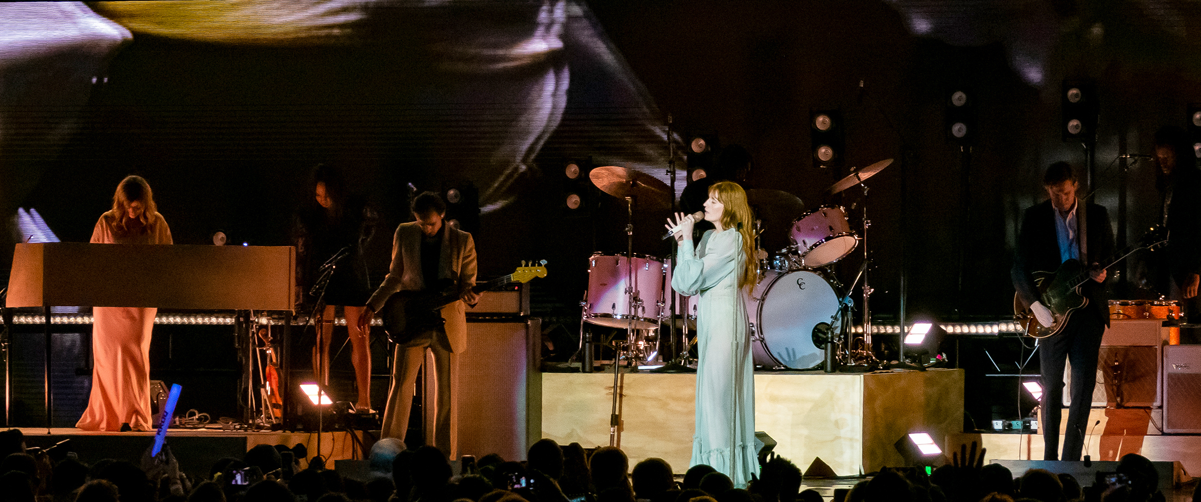 Florence and the Machine performing live at The Forum in Inglewood, Los Angeles, California, on Sunday, December 9, 2018. Part of the KROQ Almost Acoustic Christmas concert.